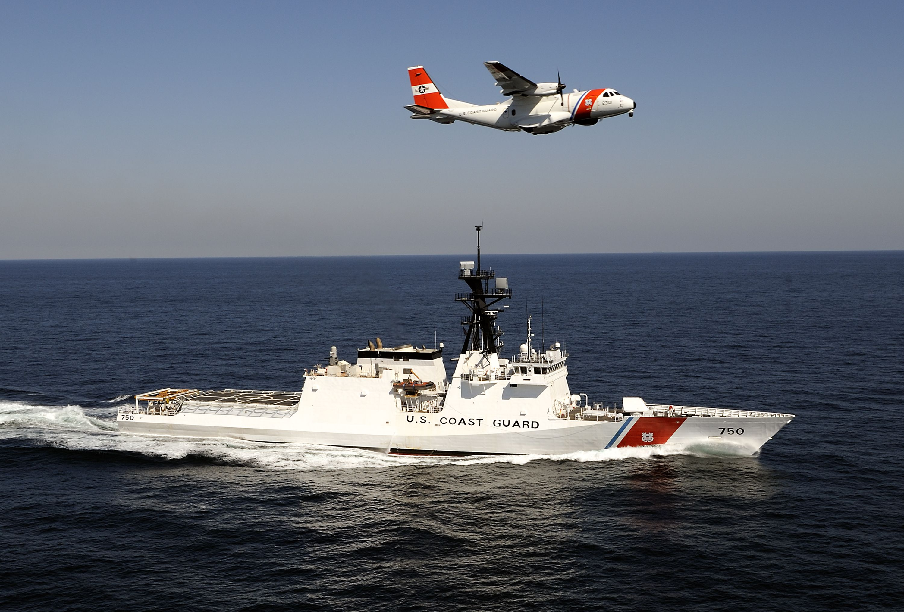 Mobile, AL - The first National Security Cutter, Bertholf, performs sea trials in Mobile Bay, Ala, Feb. 08, 2008. After meeting all requirements the cutter will be homeported in Alameda, Ca. U.S. Coast Guard photo by PAC Tom Sperduto